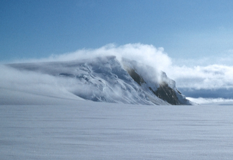 Grimsvötn in Vatna Jökull glacier in Iceland on 29 Jul 1972. Picture taken and uploaded by Roger McLassus.